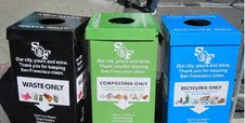 San Francisco's Fantastic Three Recycling, Compost, and Landfill bins for Events